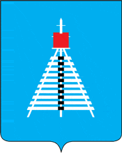 Nikolaevsk-na-Amure (Khabarovsk kray), soviet coat of arms